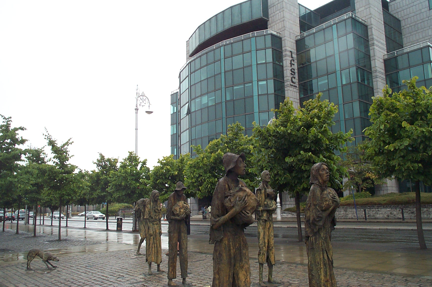 Famine sculpture in front of the International Financial Services Centre, Dublin